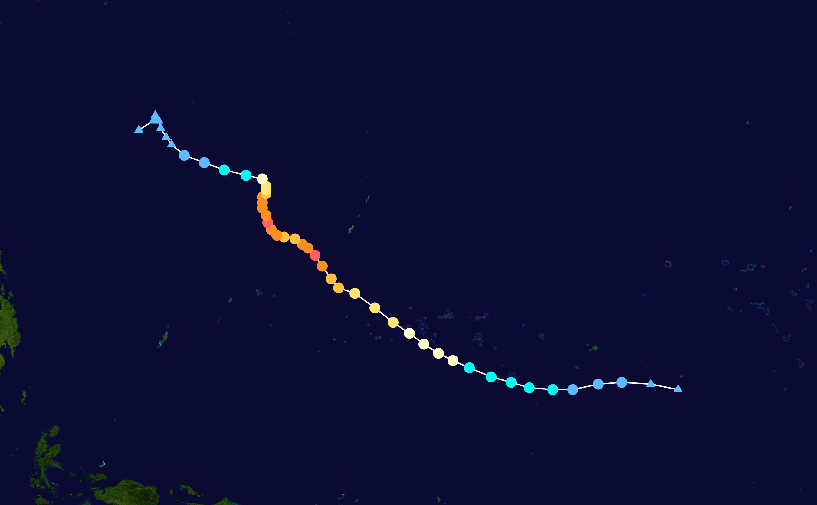 Track map of Typhoon Wutip of the 2019 Pacific typhoon season. The points show the location of the storm at 6-hour intervals. The colour represents the storm's maximum sustained wind speeds as classified in the Saffir–Simpson scale (see below), and the shape of the data points represent the nature of the storm, according to the legend below. Saffir–Simpson scale Tropical depression≤38 mph≤62 km/h Category 3111–129 mph178–208 km/h Tropical storm39–73 mph63–118 km/h Category 4130–156 mph209–251 km/h Category 174–95 mph119–153 km/h Category 5≥157 mph≥252 km/h Category 296–110 mph154–177 km/h Unknown Storm type Tropical cyclone Subtropical cyclone Extratropical cyclone / Remnant low / Tropical disturbance